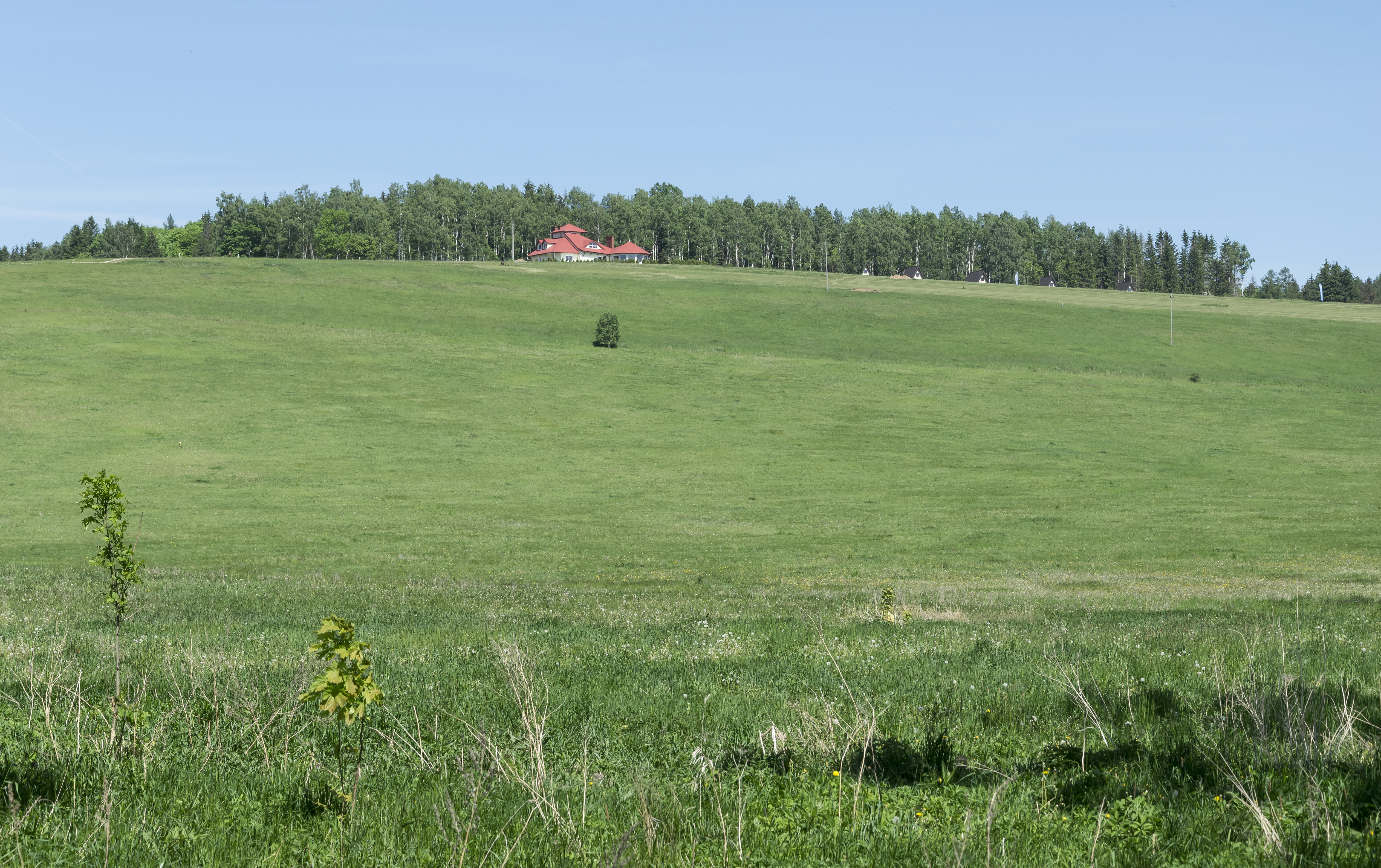 Golf course in Szczytna